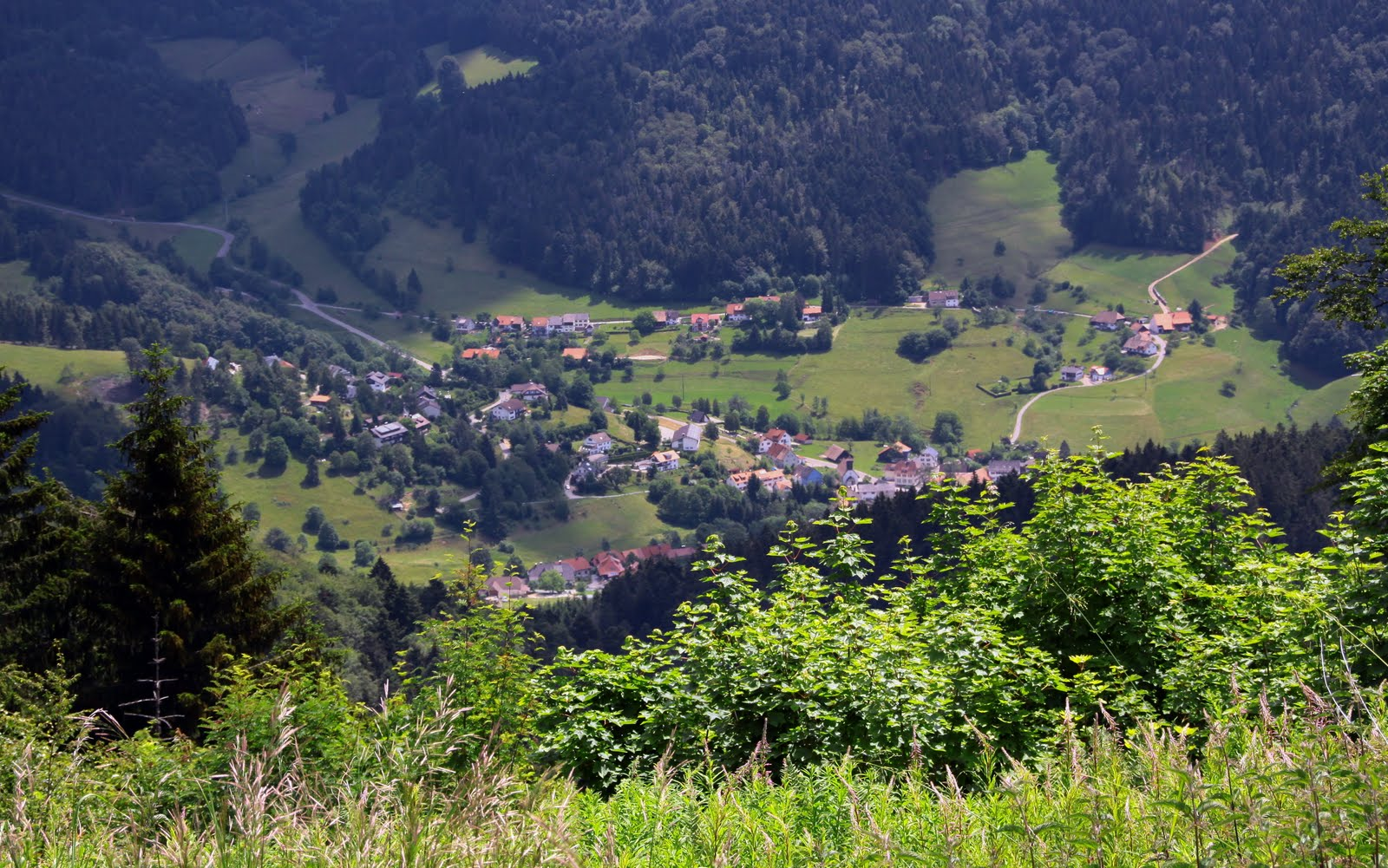 View of Marzell